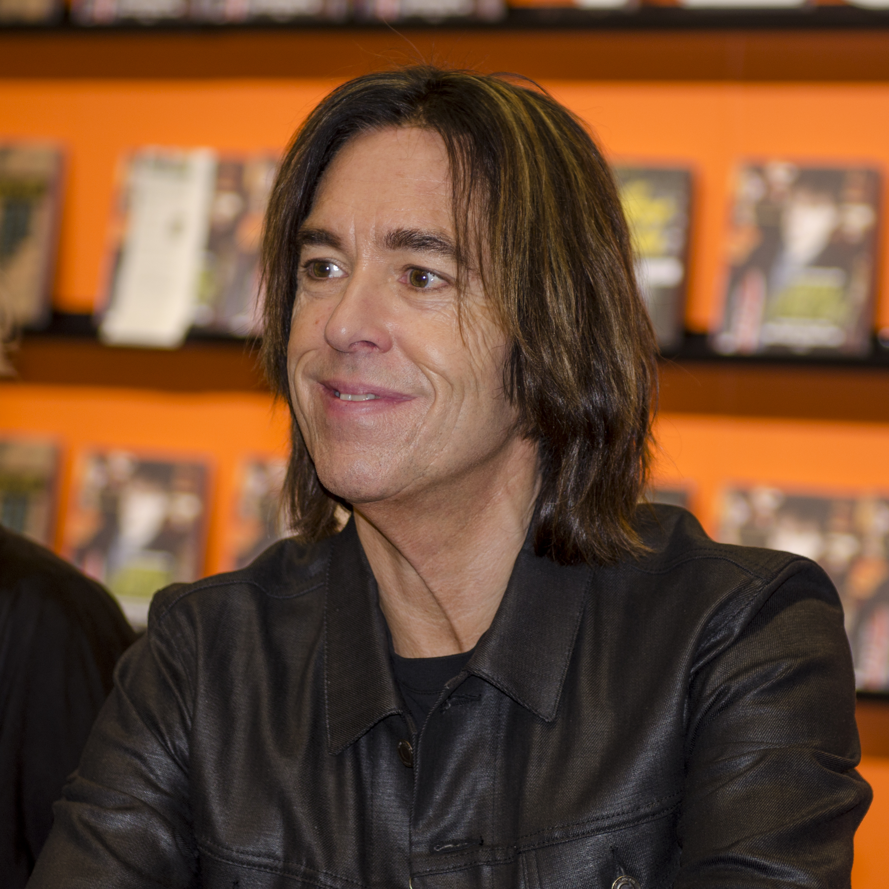 Per Gessle at the Göteborg Book Fair 2014.